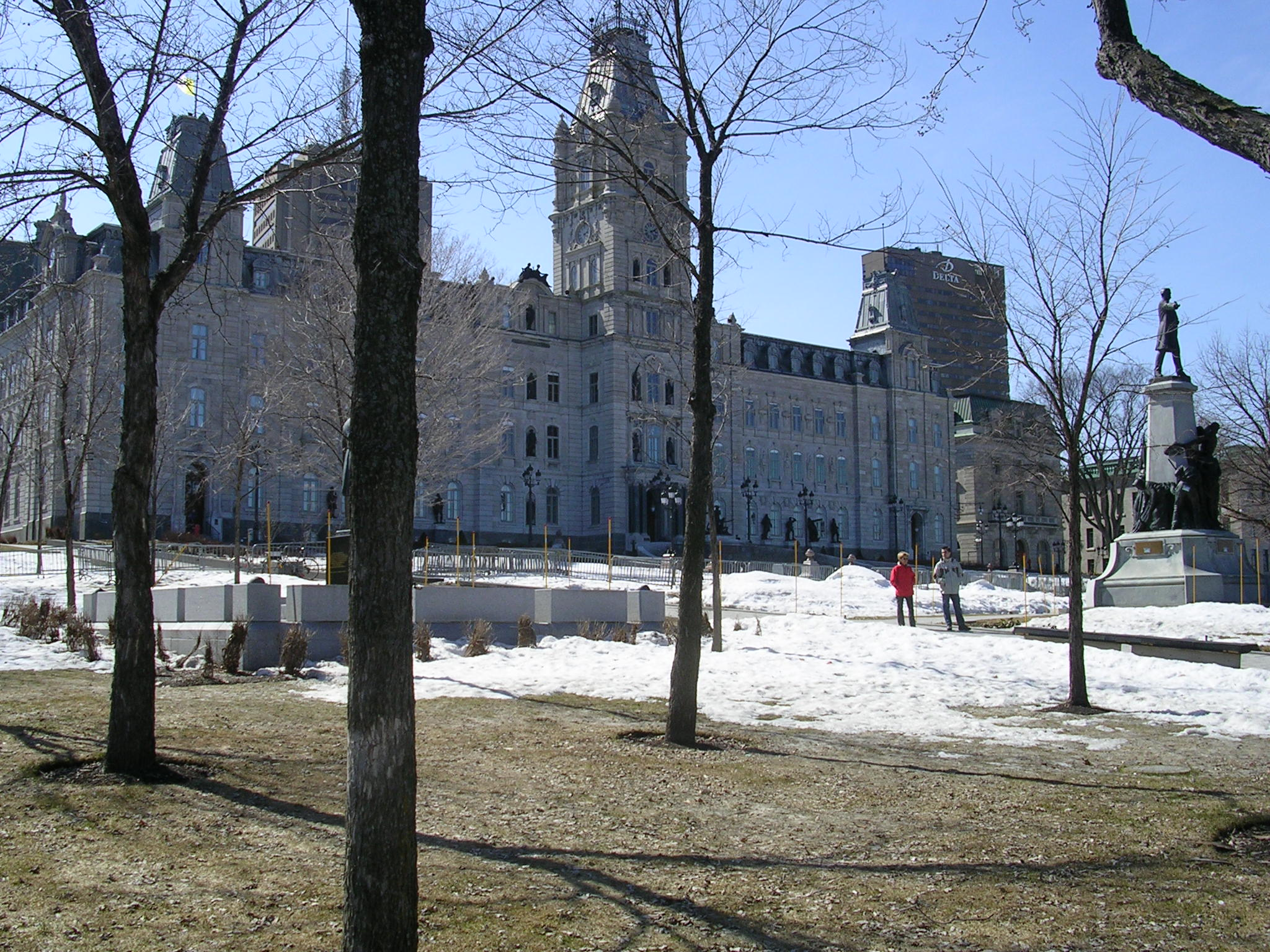 The Parliament Building of Quebec